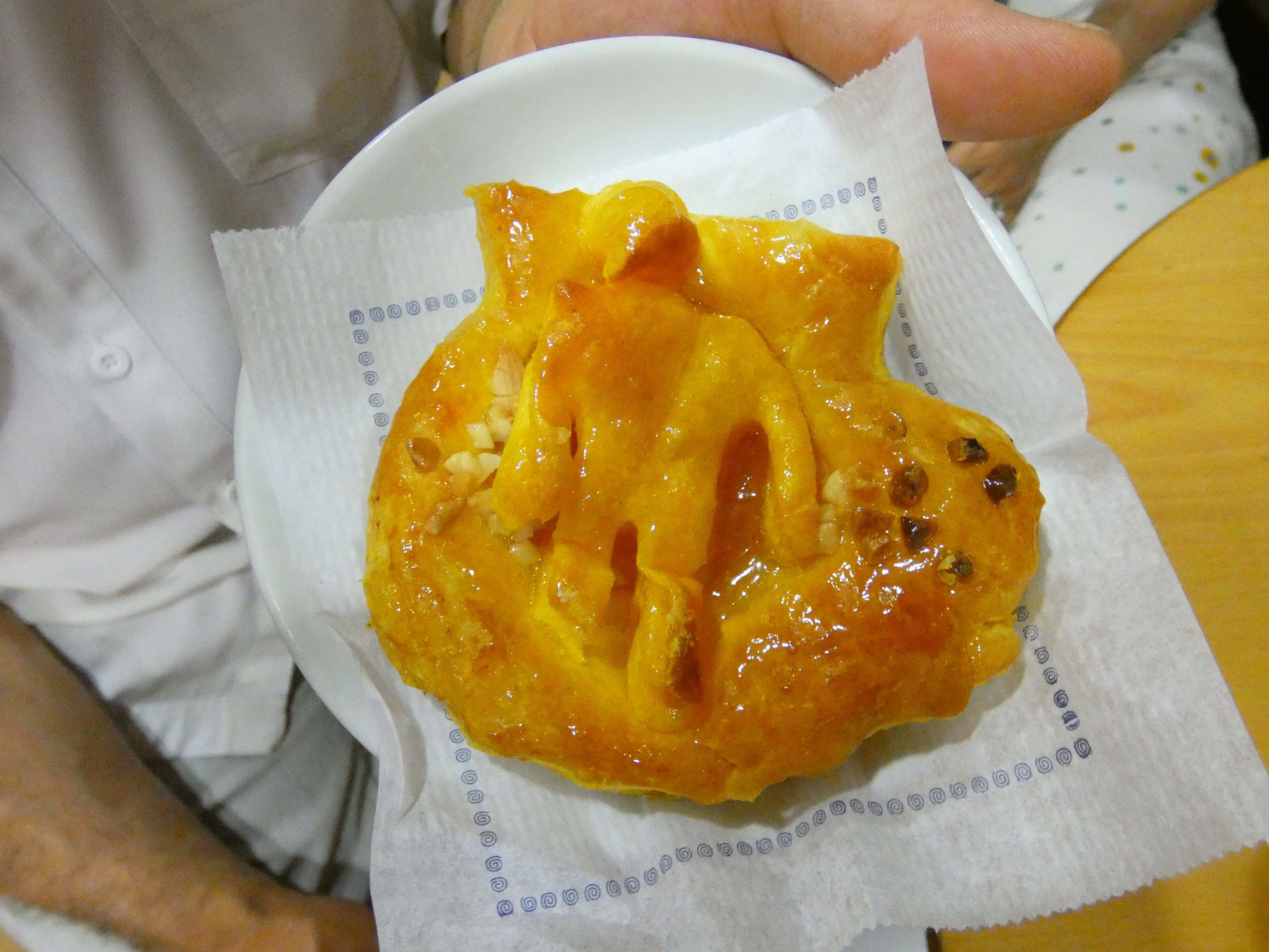 Dulces de hojaldre Ahorcaditos de Santo Domingo de la Calzada